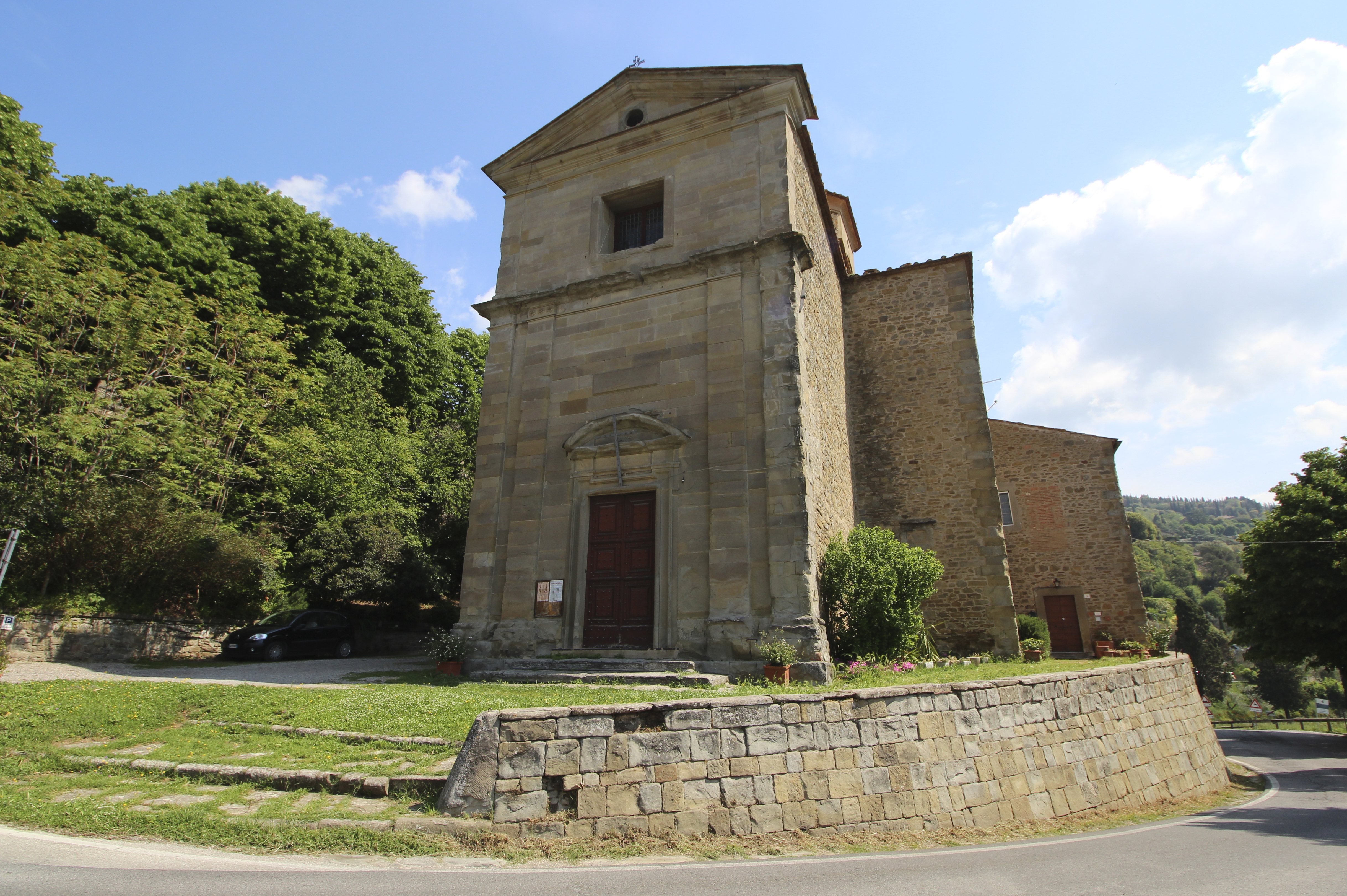 Church Spirito Santo, Cortona, Province of Arezzo, Tuscany, Italy